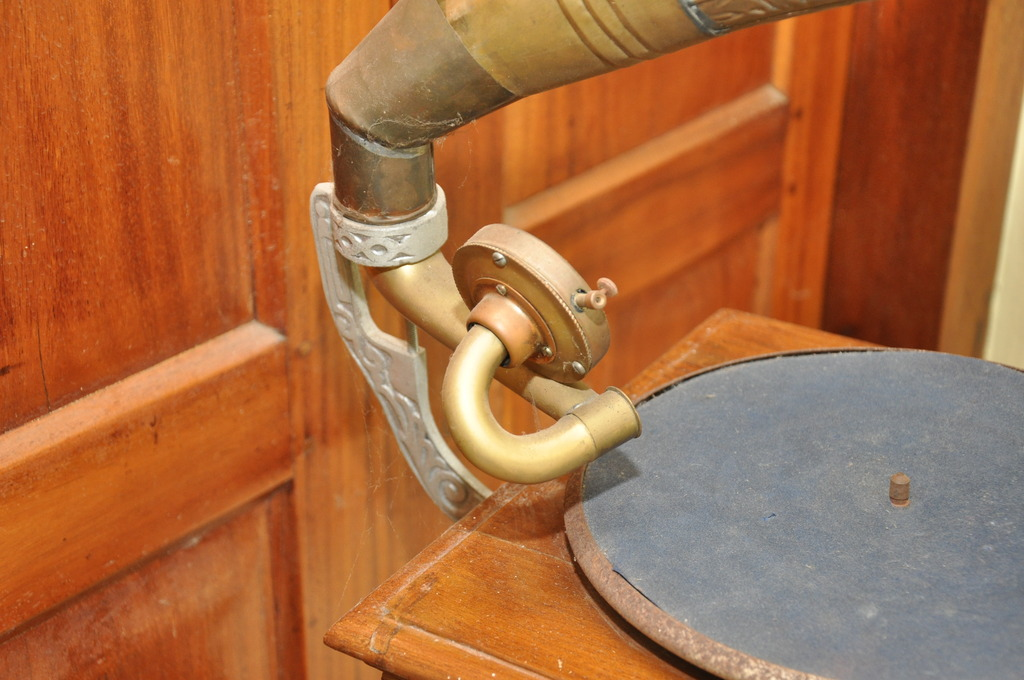 Gramaphone